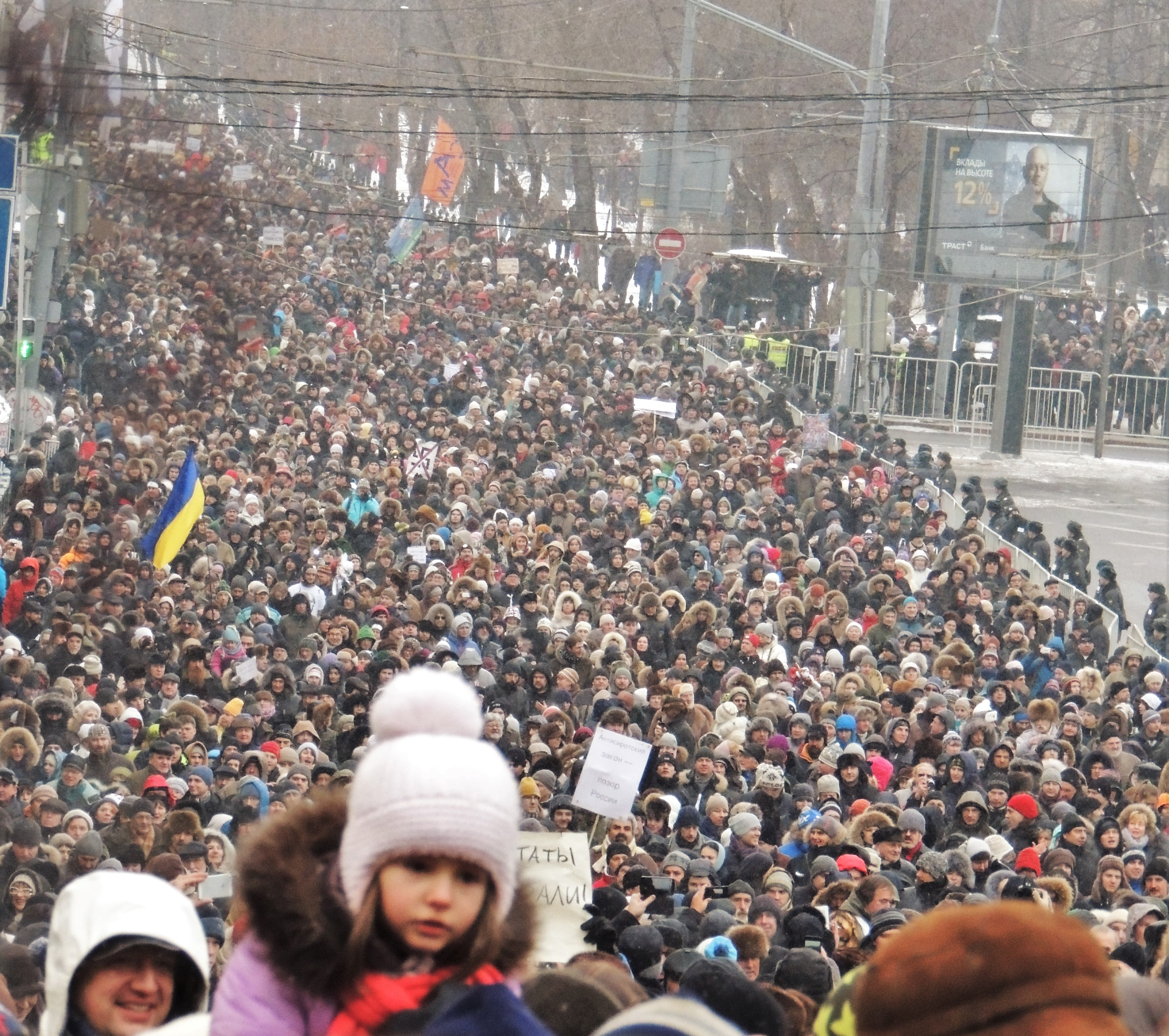 Opposition rally at Moscow 2013-01-13, Trubnaya Square